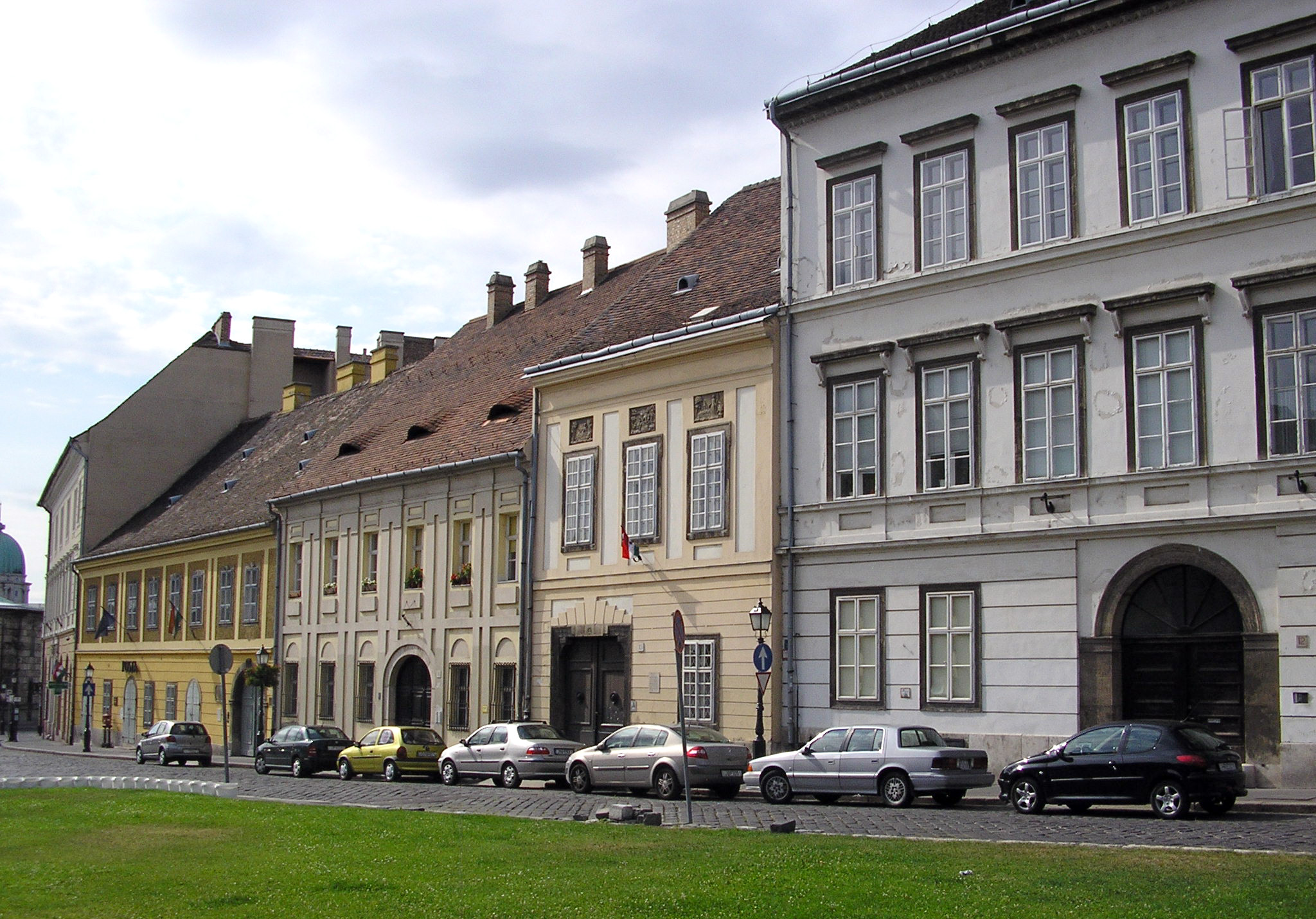 Place of parade, Buda Castle (Budapest)